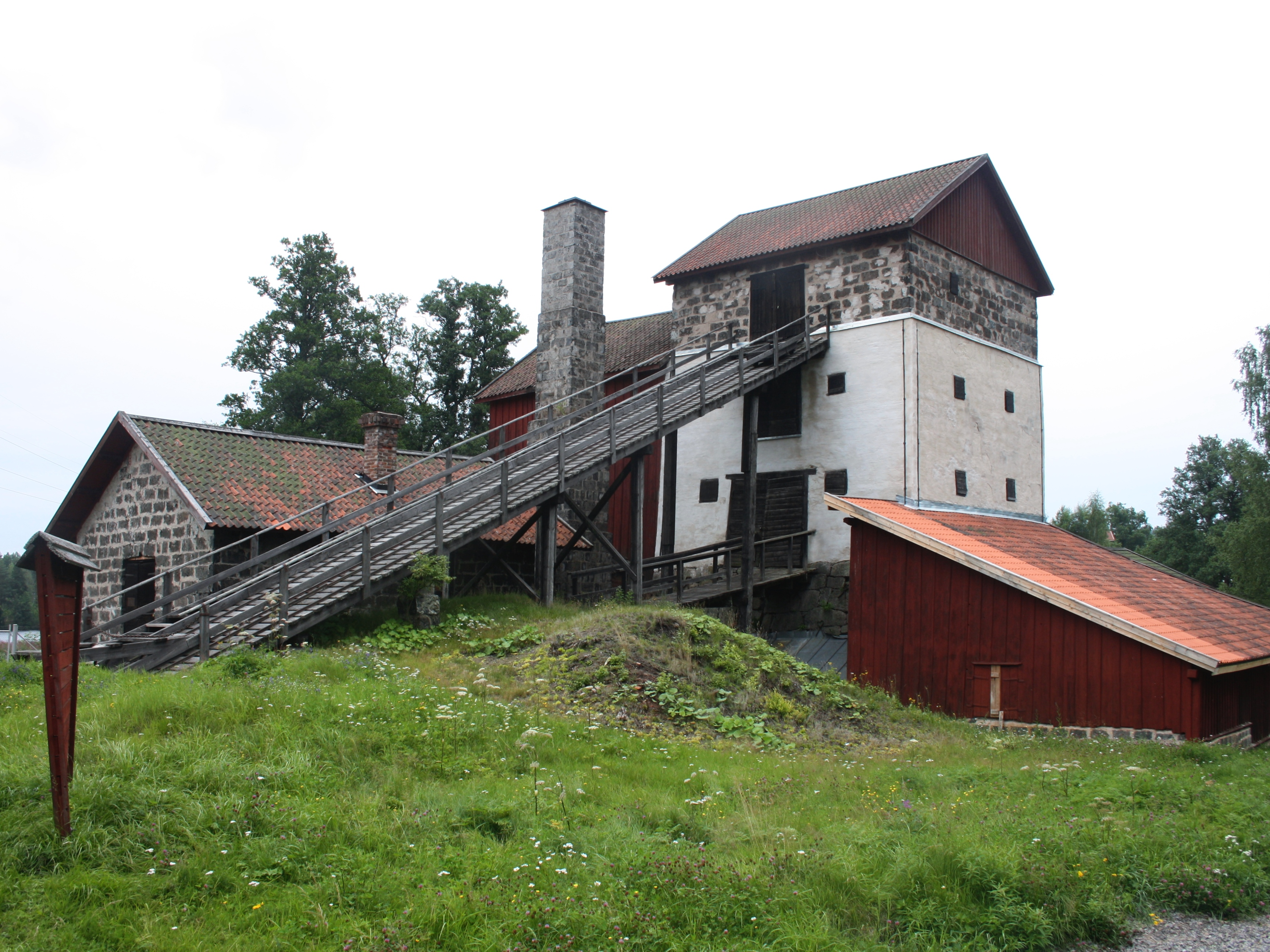 Filipstad, Sweden. Storbrohyttan iron foundry, view from North-East. See also: [1]